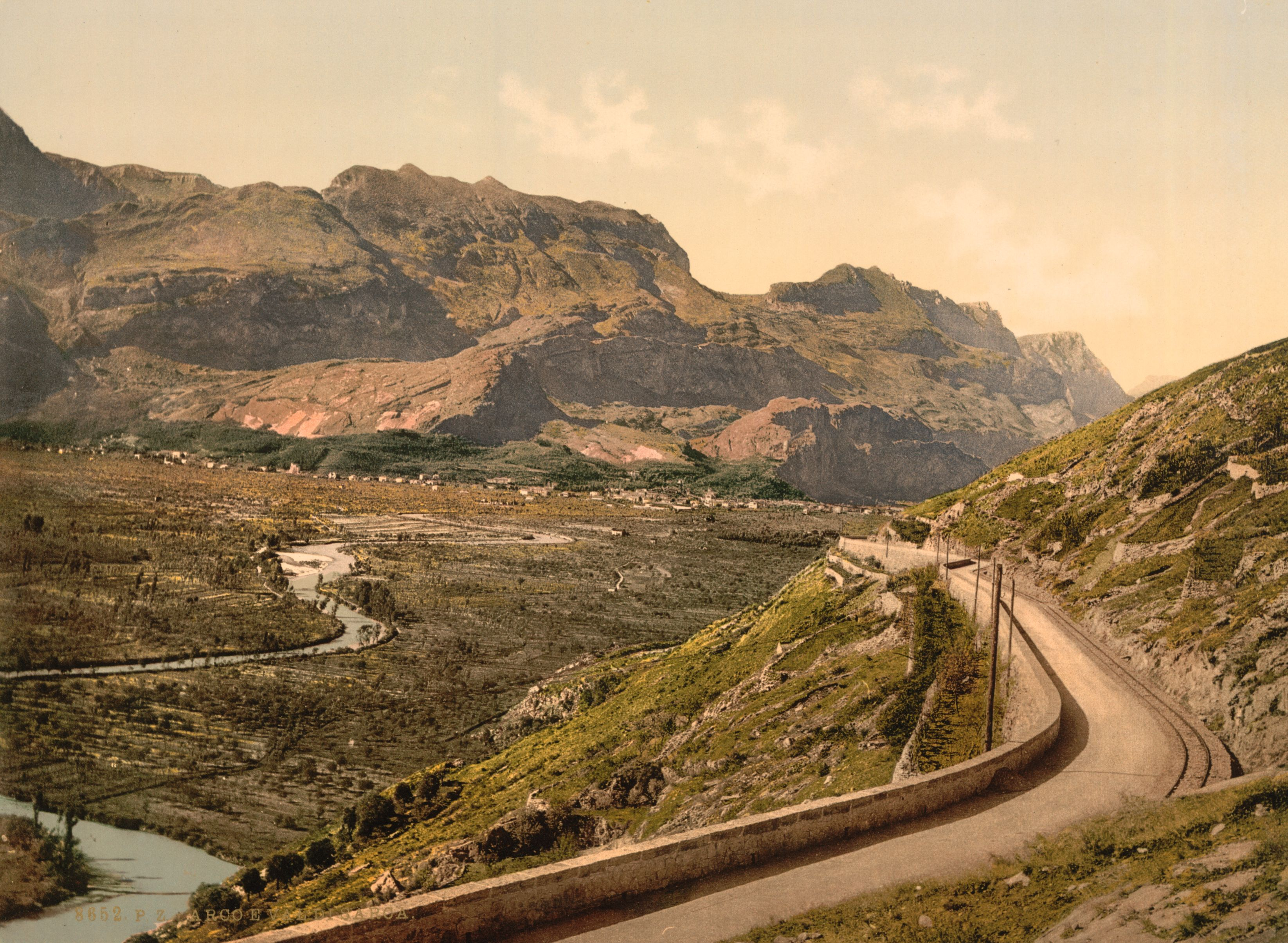 Valley of Sarca, Lake Garda, Italy. The tracks belong to the 2ft-gauge-railway Ferrovia Mori-Arco-Riva. Photochrome poastcard from publisher Photoglob in Zurich.